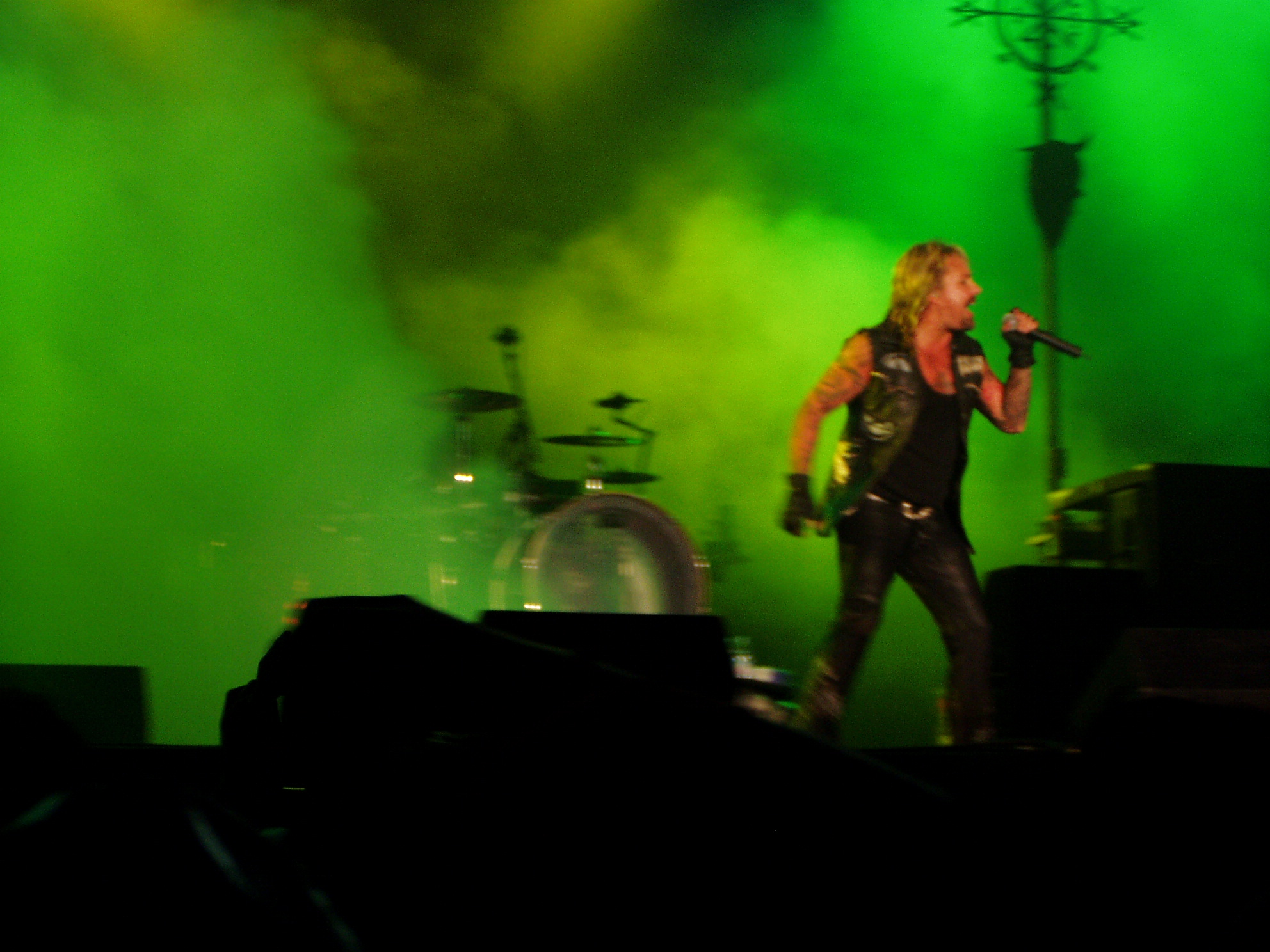 I Mötley Crüe al Gods of Metal 2007